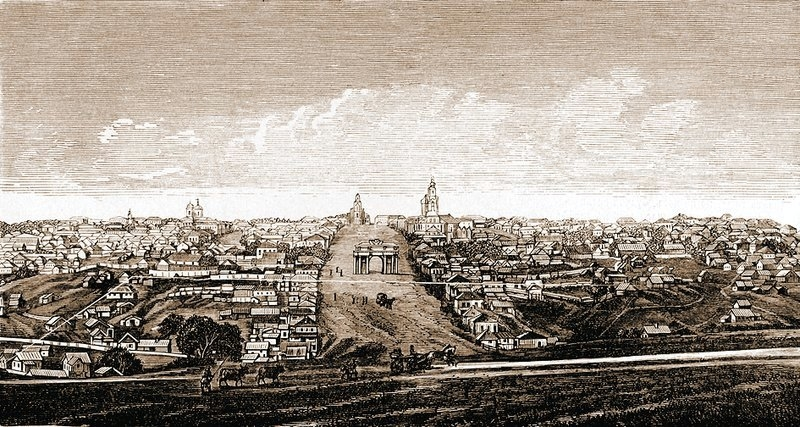 General view of Novocherkassk. An engraving by A. Daugelya from a photograph of T. Ivanov, drawing on the tree by E. Ovsyannikov. The end of XIX century. State Historical Museum of Russia, Moscow